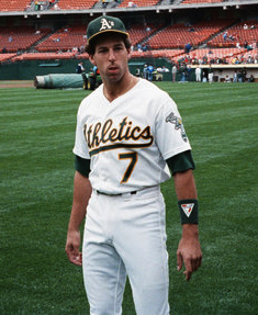 Oakland A's shortstop Walt Weiss.